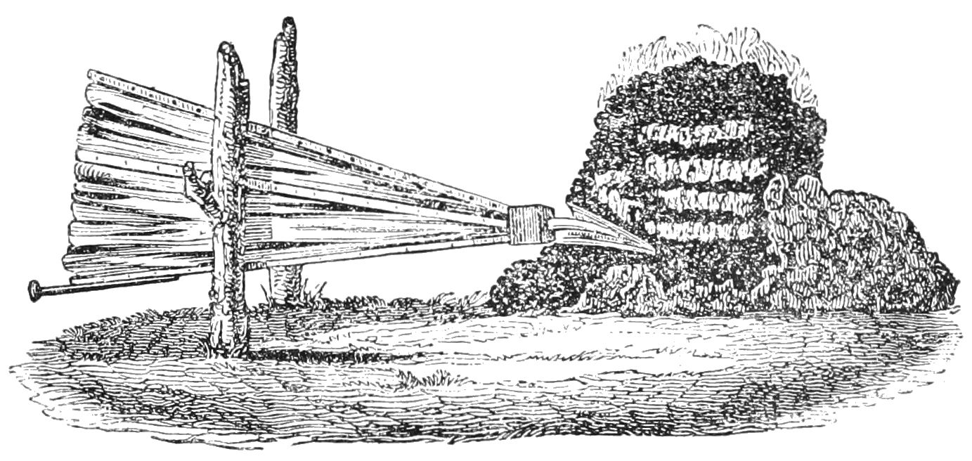 Persian Method of Smelting Iron.